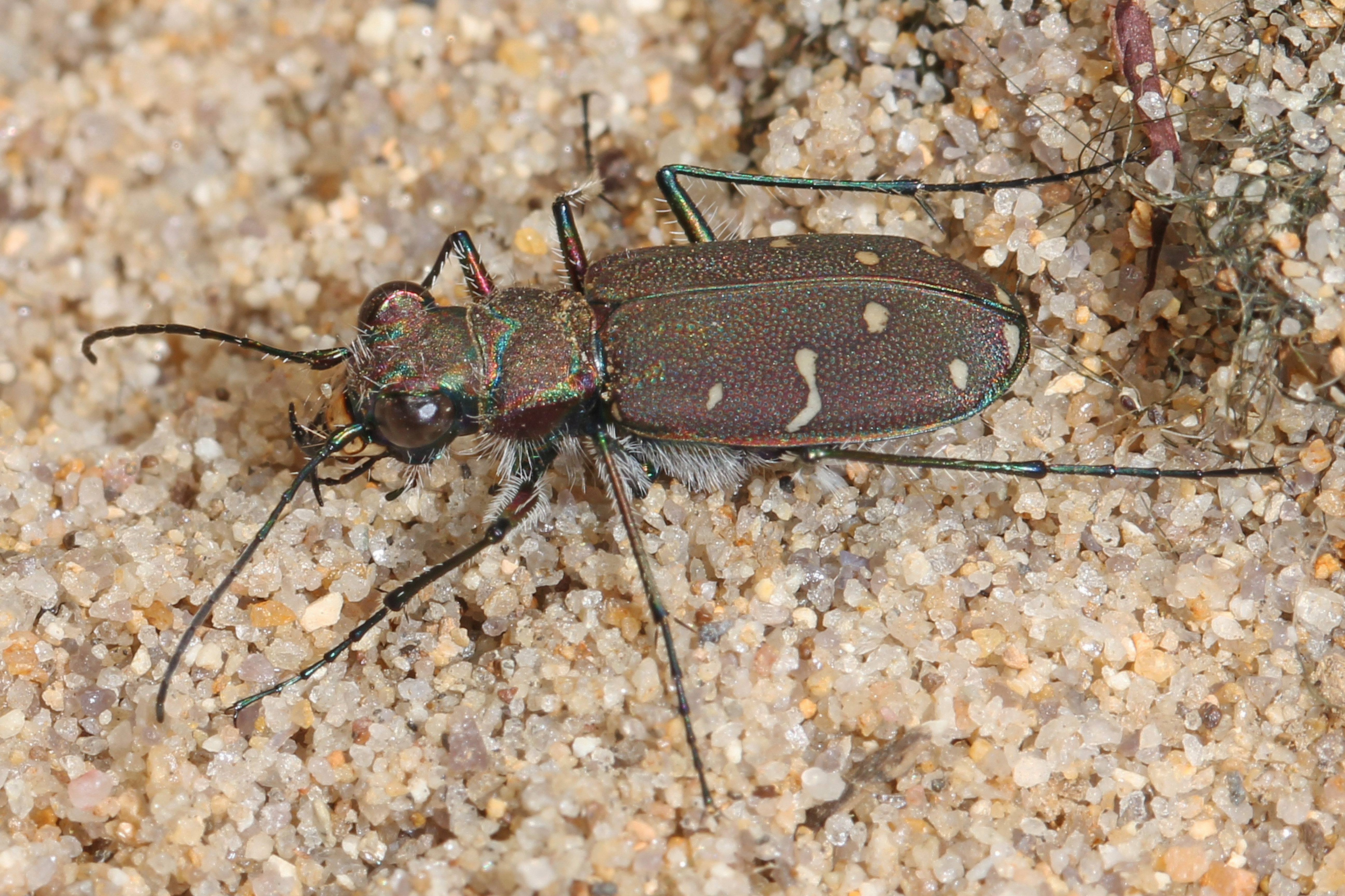 Twelve-spotted Tiger Beetle - Cicindela duodecimguttata, Leesylvania State Park, Woodbridge, Virginia.